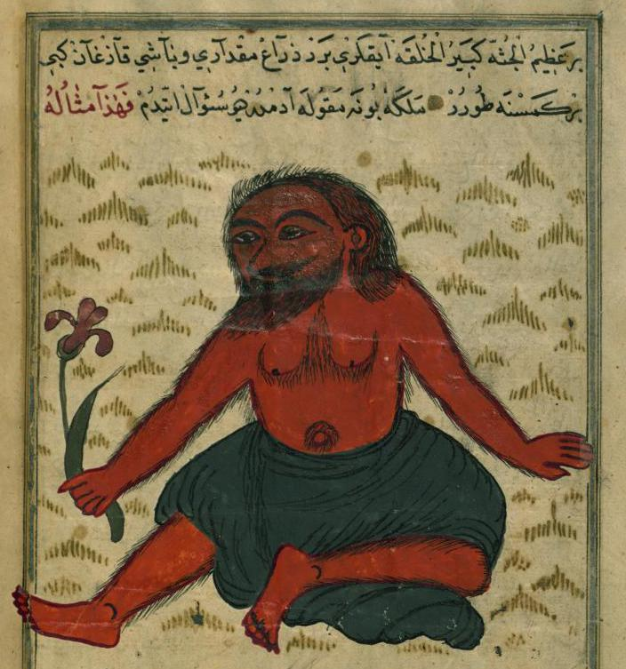 This illustration from Walters manuscript W.659 depicts the monster of Gog and Magog (Yajuj va Majuj).